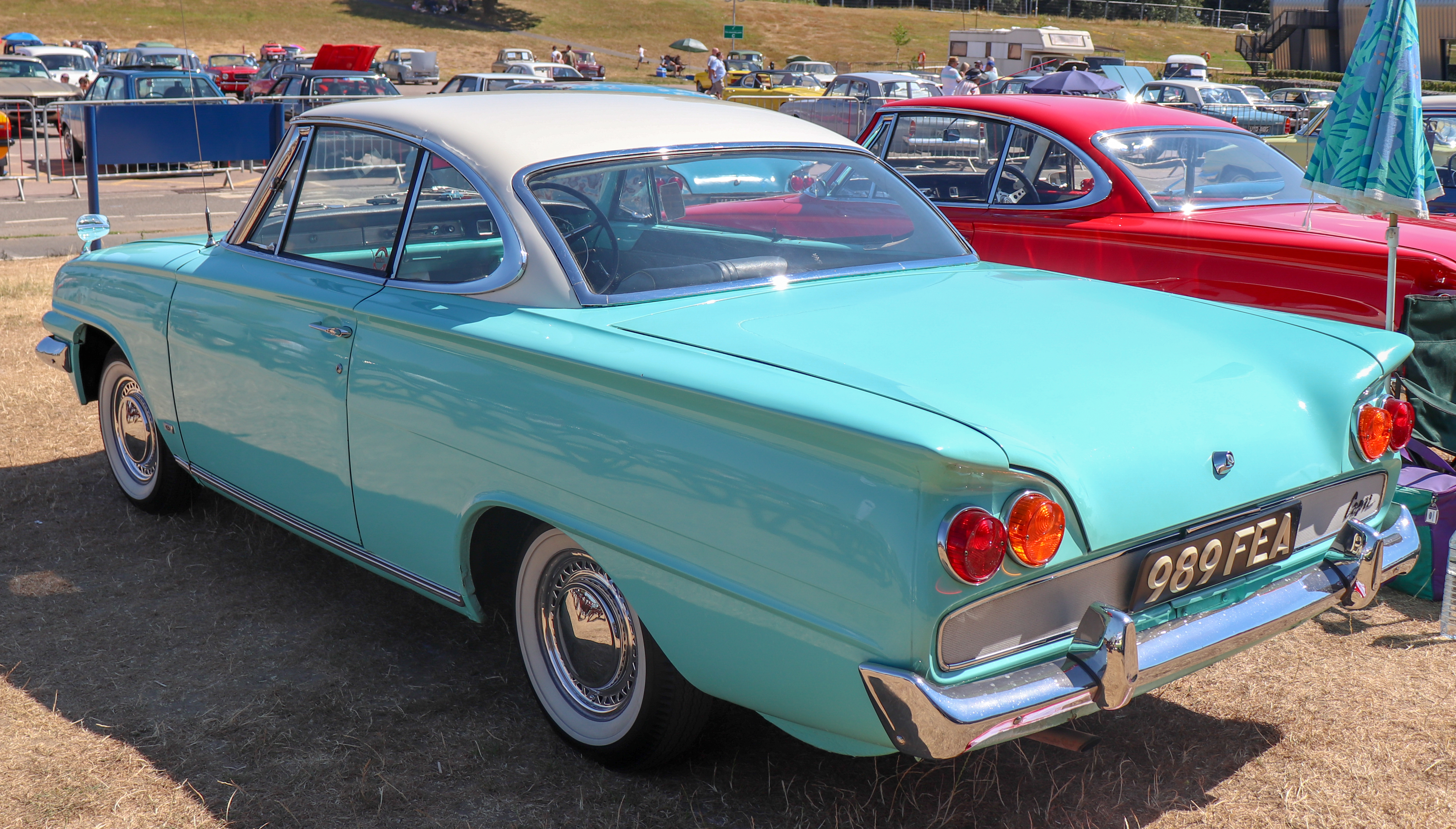 1962 Ford Consul Capri 1.3 Rear Taken at the British Motor Museum Old Ford Rally 2018, Gaydon